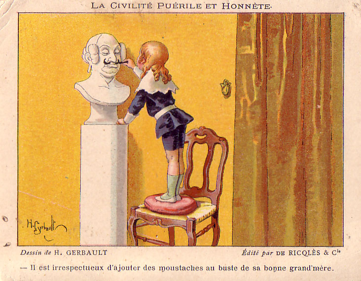 Signed illustration by Henry Gerbault († 1930) on an advertisement card for and edited by Ricqlès & Co. From the series, La Civilité Puéril et Honnète [stet] (Civility, Childish and Honest): "Il est irrespectueux d'ajouter des moustaches au buste de sa bonne grand'mère." [stet] ("It is disrespectful to add whiskers to the bust of one's dear grandmother.")